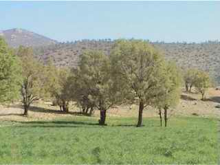 Around Sarvestan